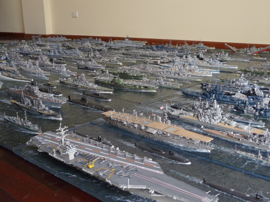 Mi Coleccion 3 EN